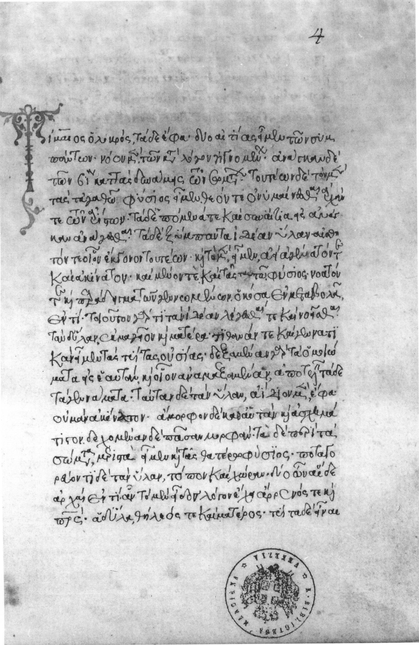 Pseudo-Timaeus of Locri, On the Nature of the World and the Soul, in a manuscript from the library of Bessarion. Venice, Biblioteca Nazionale Marciana, Gr. 517, fol. 4r.